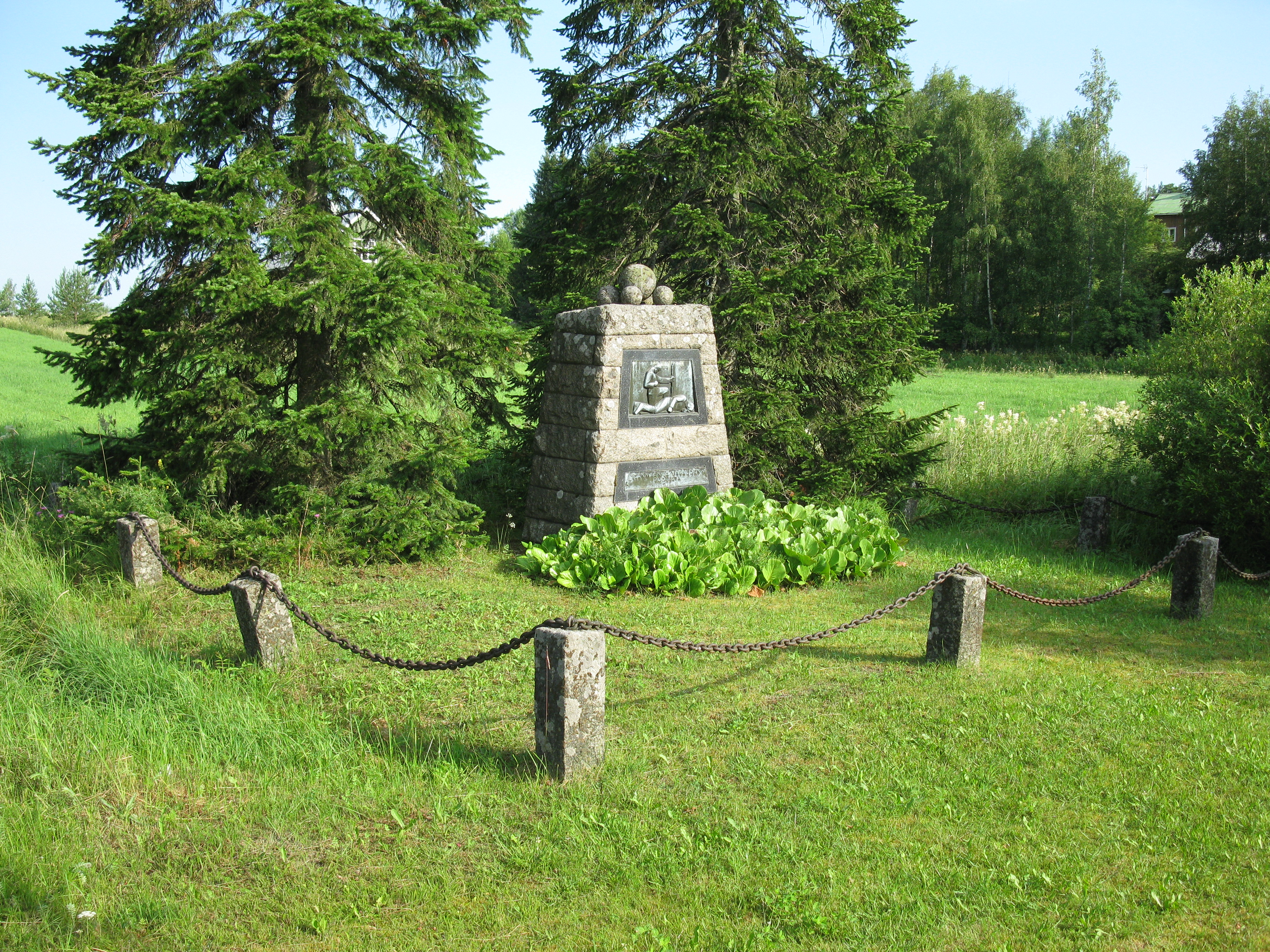 The memorial stone of the battle of Lautela (22.4.1918, in Finnish civil war), in Lautela, Somero, Finland. The monument was erected in 1939. The broze relief in the monument was designed by the Finnish sculptor Felix Nylund (1878-1940).